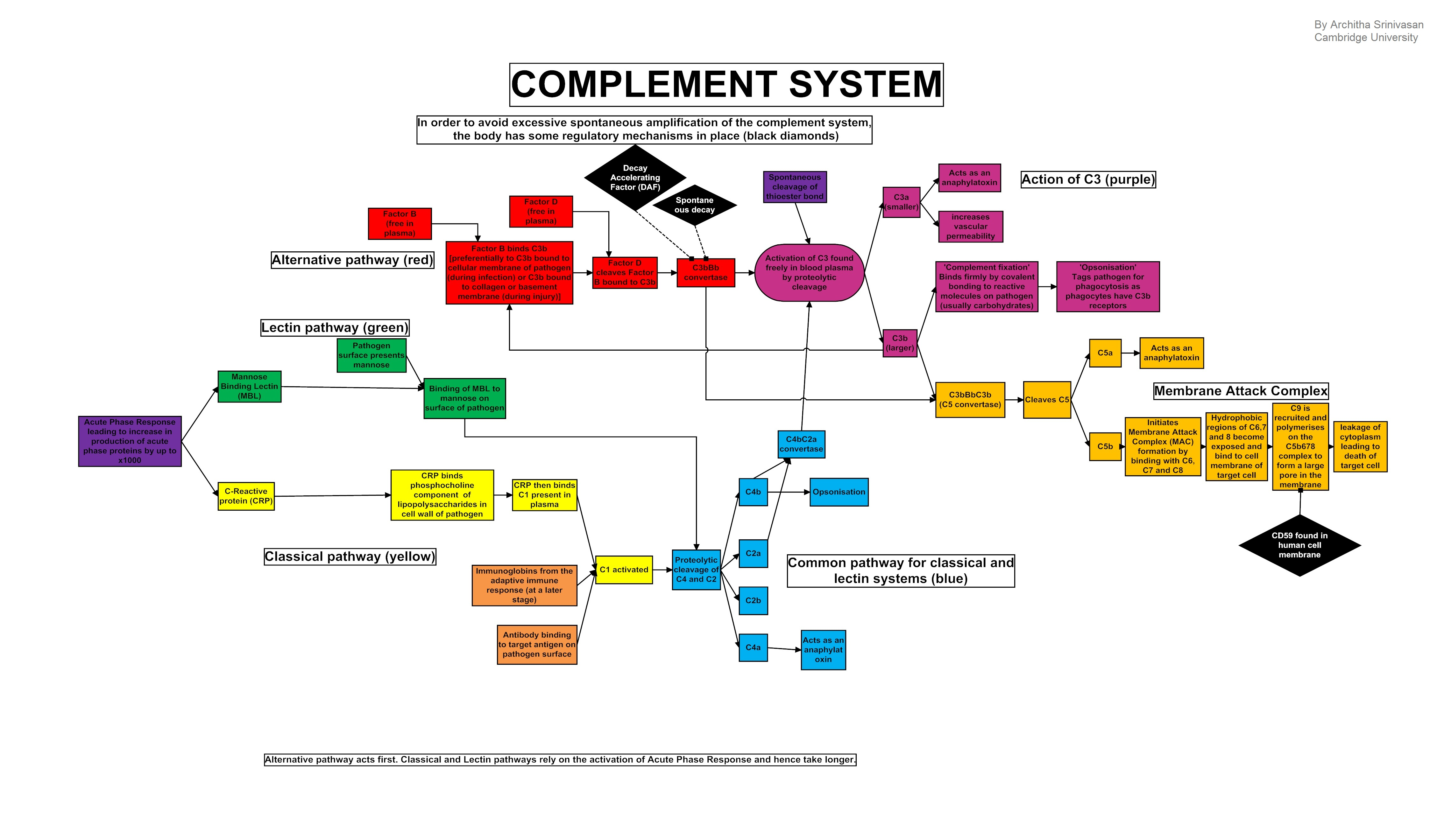 Summary flow diagram of the complement system.